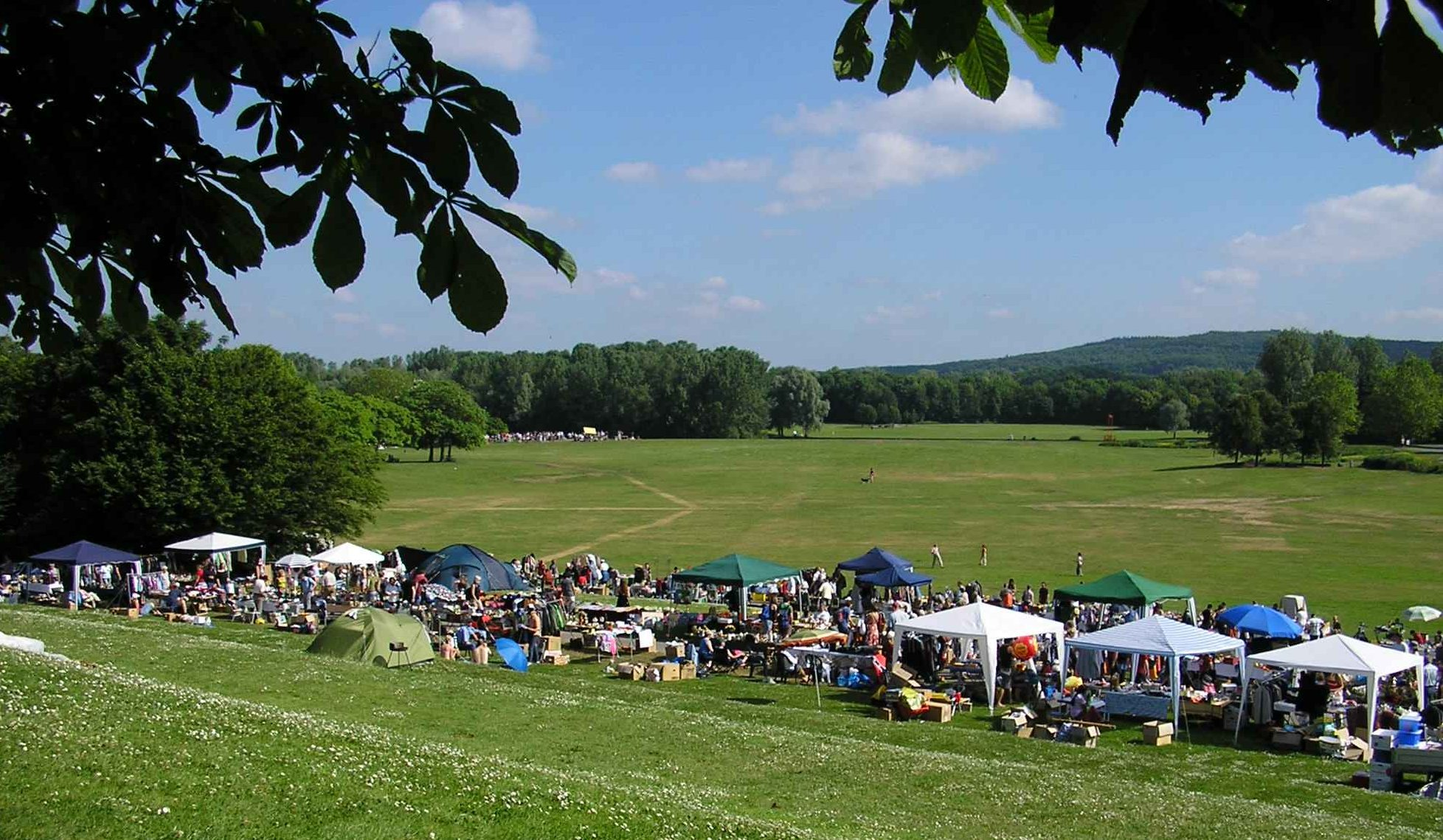 Flea market in the Rheinaue Leisure Park in Bonn